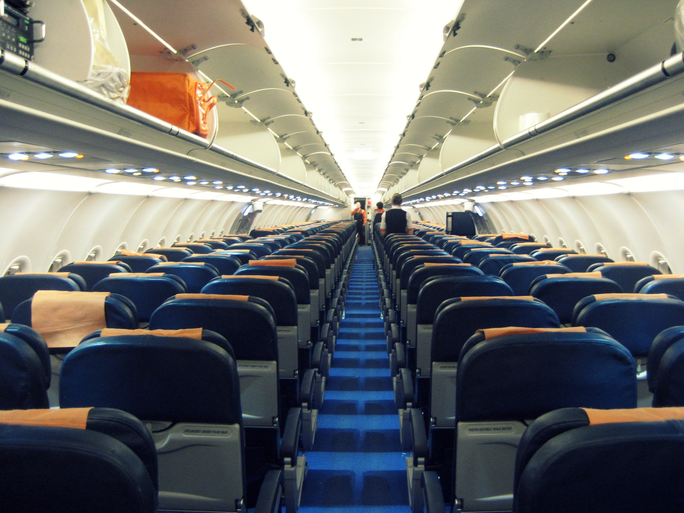 G-TTIF, an ex-GB Airways aircraft, now bearing signs of its new life with easyJet.